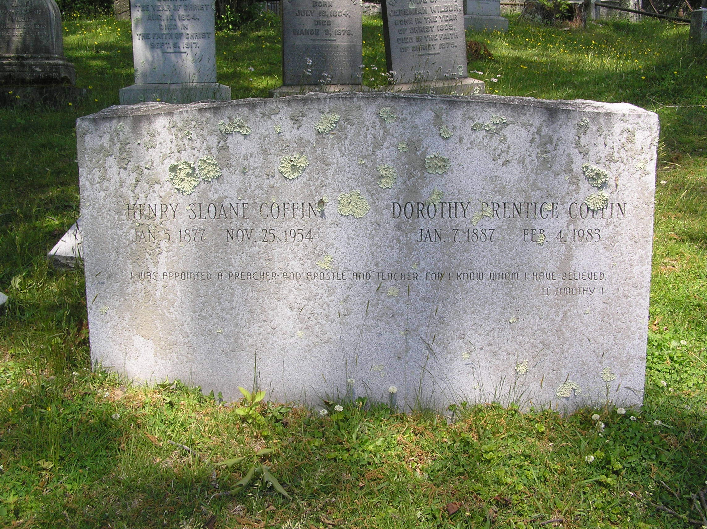 The gravesite of Henry Sloane Coffin in Sleepy Hollow Cemetery